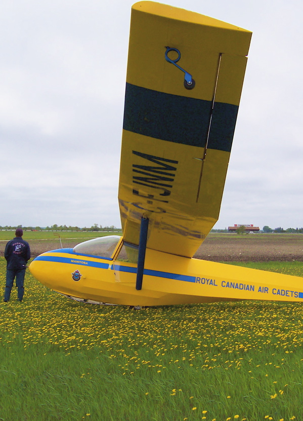 A Schweizer SGS 2-33 (2-33A) sailplane/glider in the Royal Canadian Air Cadets paint scheme. Photo taken at Gimli Industrial Park Airport, Gimli, Manitoba, Canada.